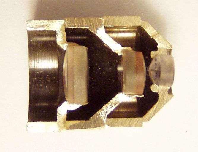 Cross section of a microscope objective: Achromatic objective with a numerical aperture of 0.65 and a 40-times magnification